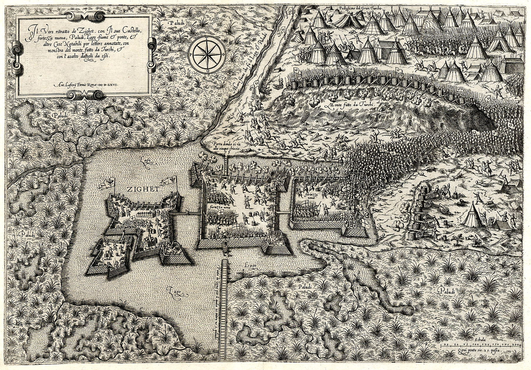 Artistic impression about the battle of Szigetvár (1566). Cut.